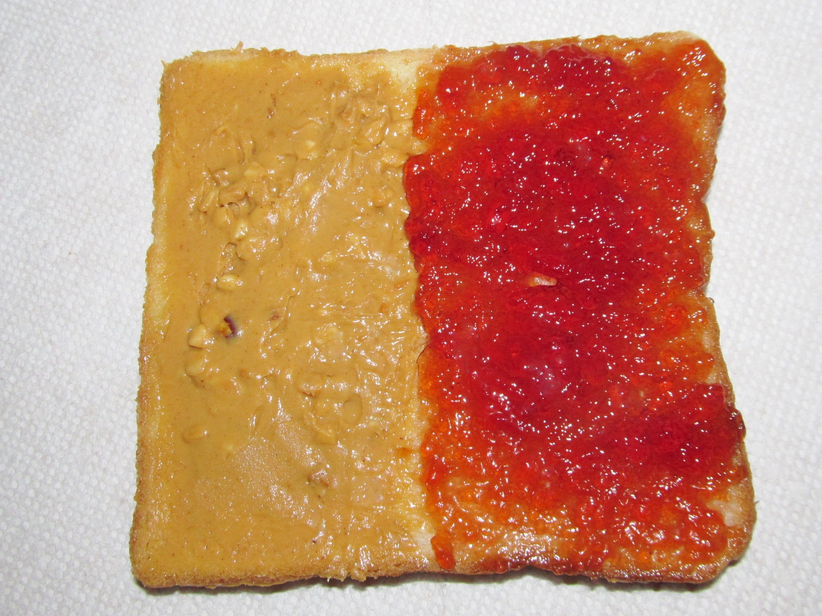 April 2nd is National Peanut Butter and Jelly Day!